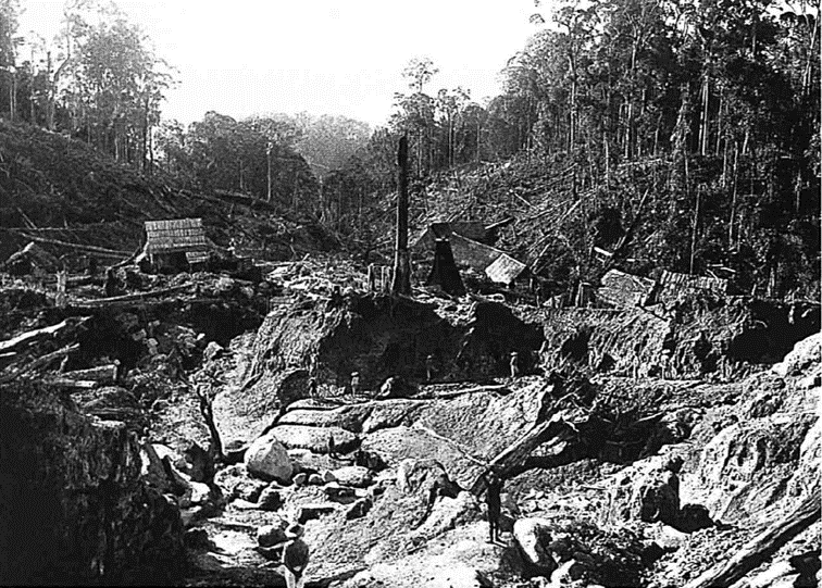 Tin Mining in the Gap, near Fraser's Hill, Pahang, c. 1906, picture is taken from "Malaysia: A Pictorial History 1400 - 2004", edited by Moore, Wendy Khadijah, p. 104